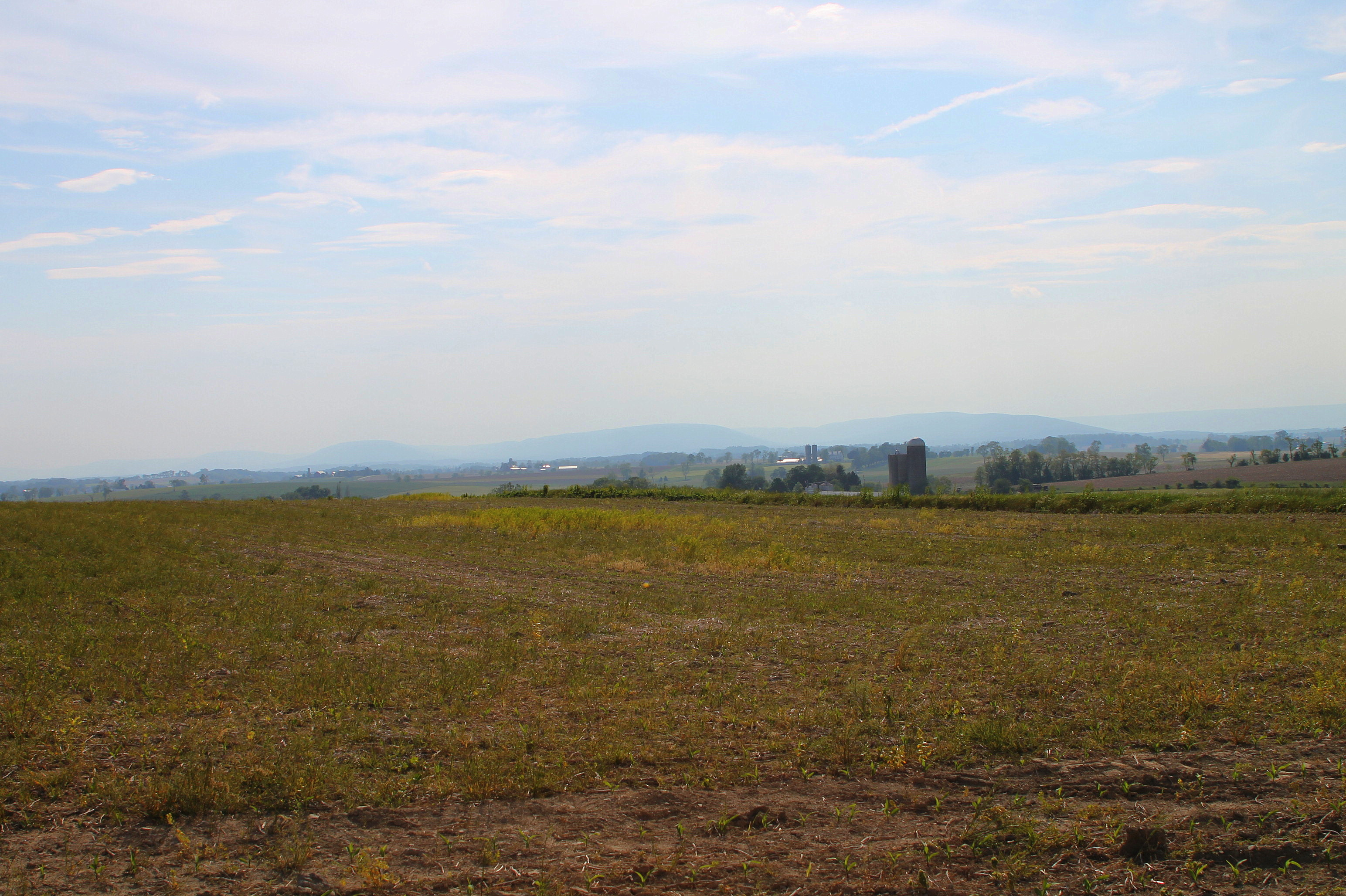 Scenery of Limestone Township, Montour County, Pennsylvania